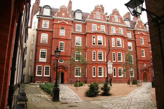 Hare Court Quiet Court in the heart of Middle Temple